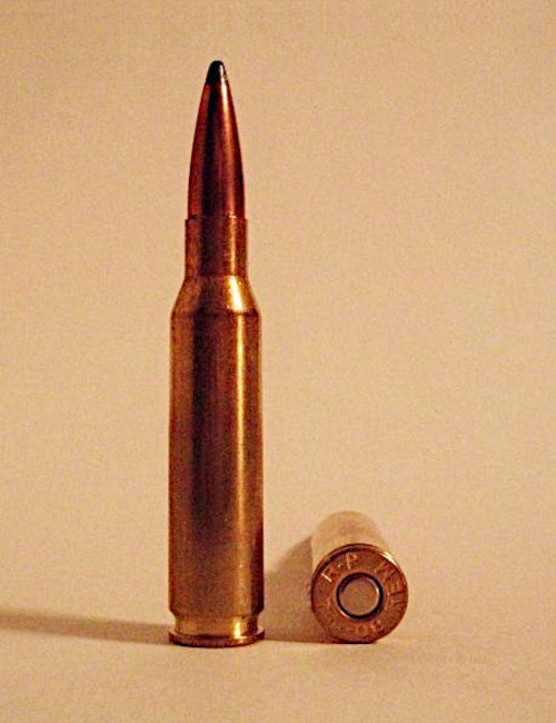 7mm-08 Remington